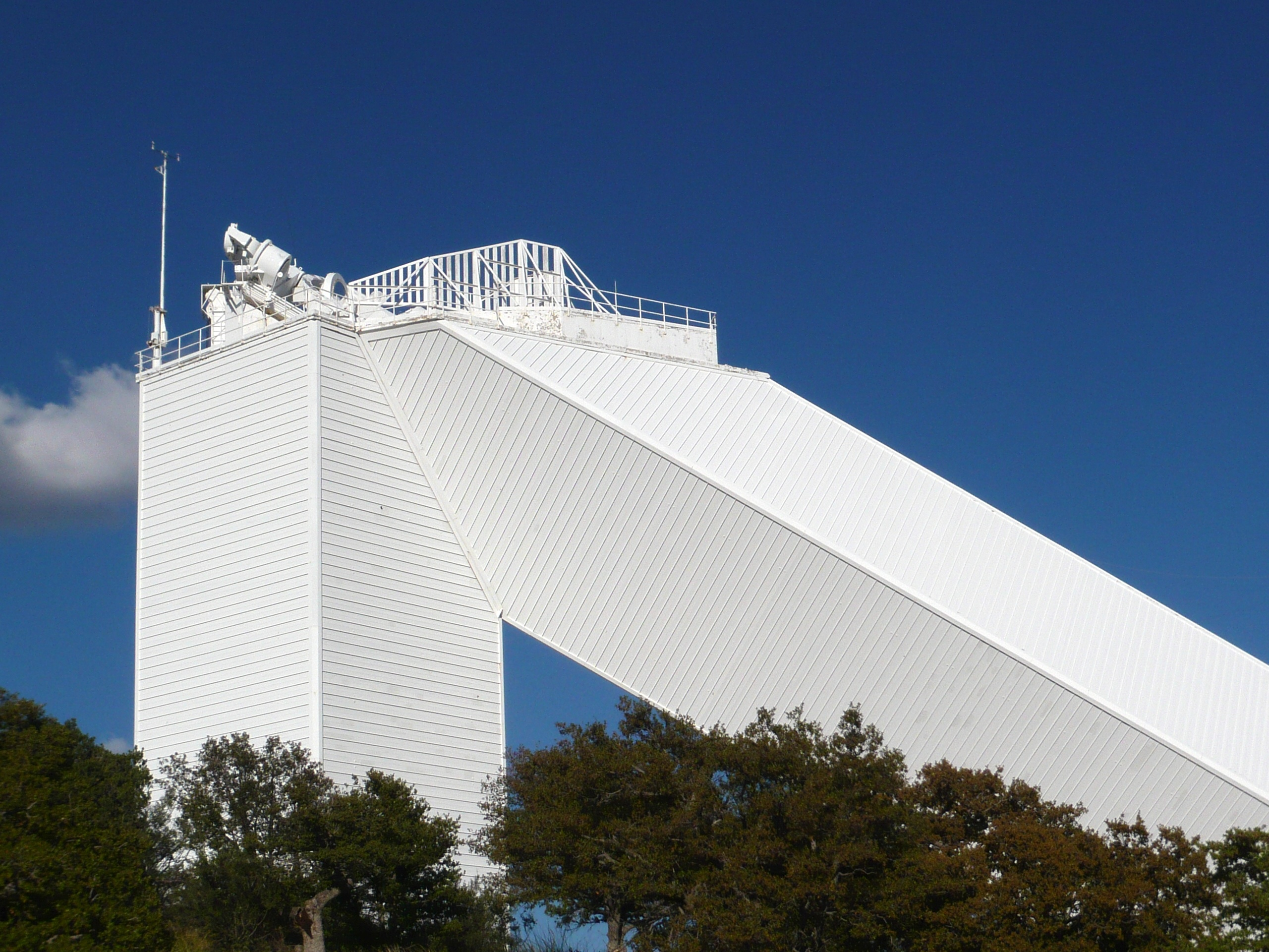 The McMath-Pierce Solar telescope as viewed from the west